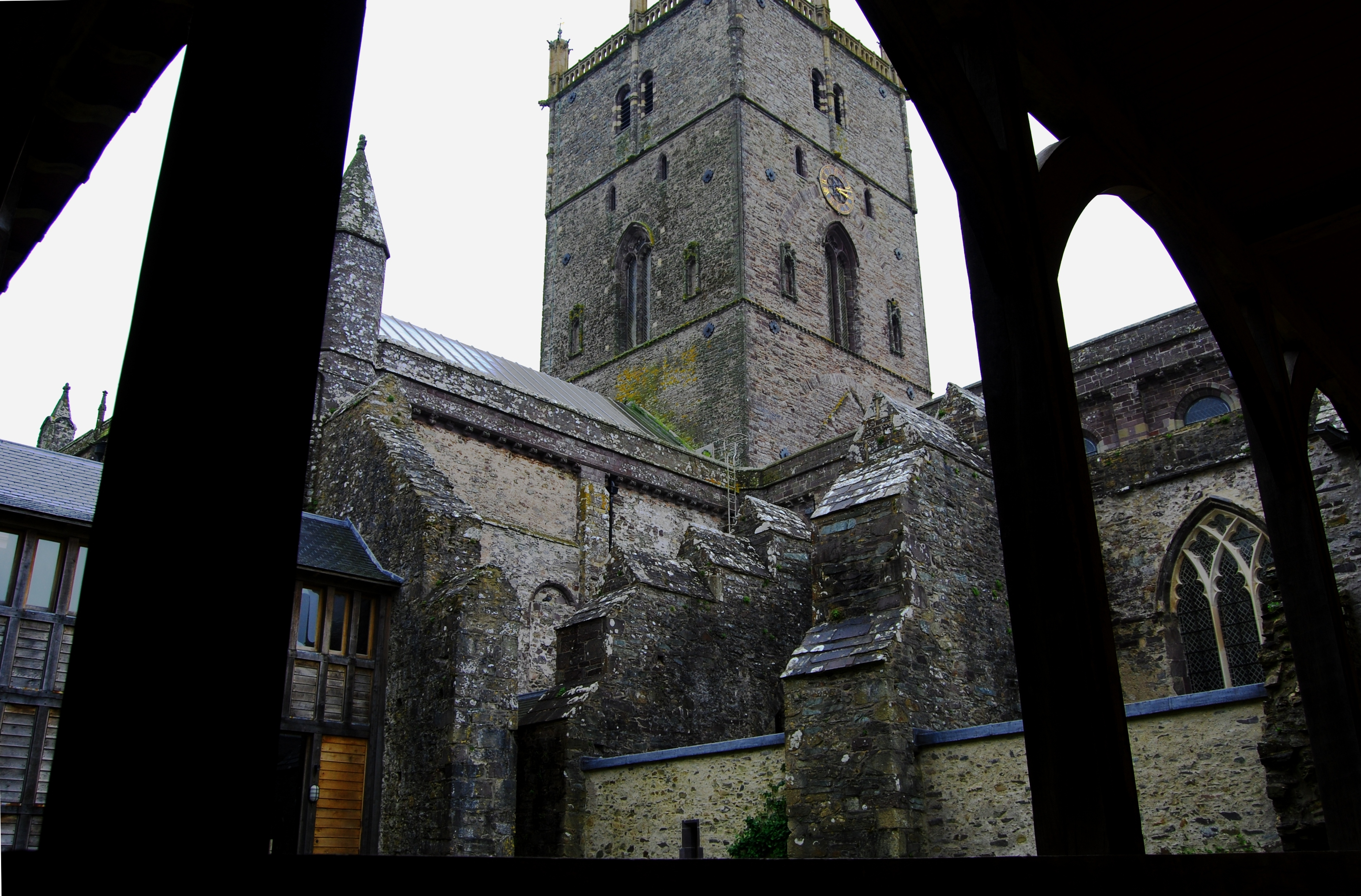 Inside the reconstructed cloisters at St Davids, St Davids, Pembrokeshire